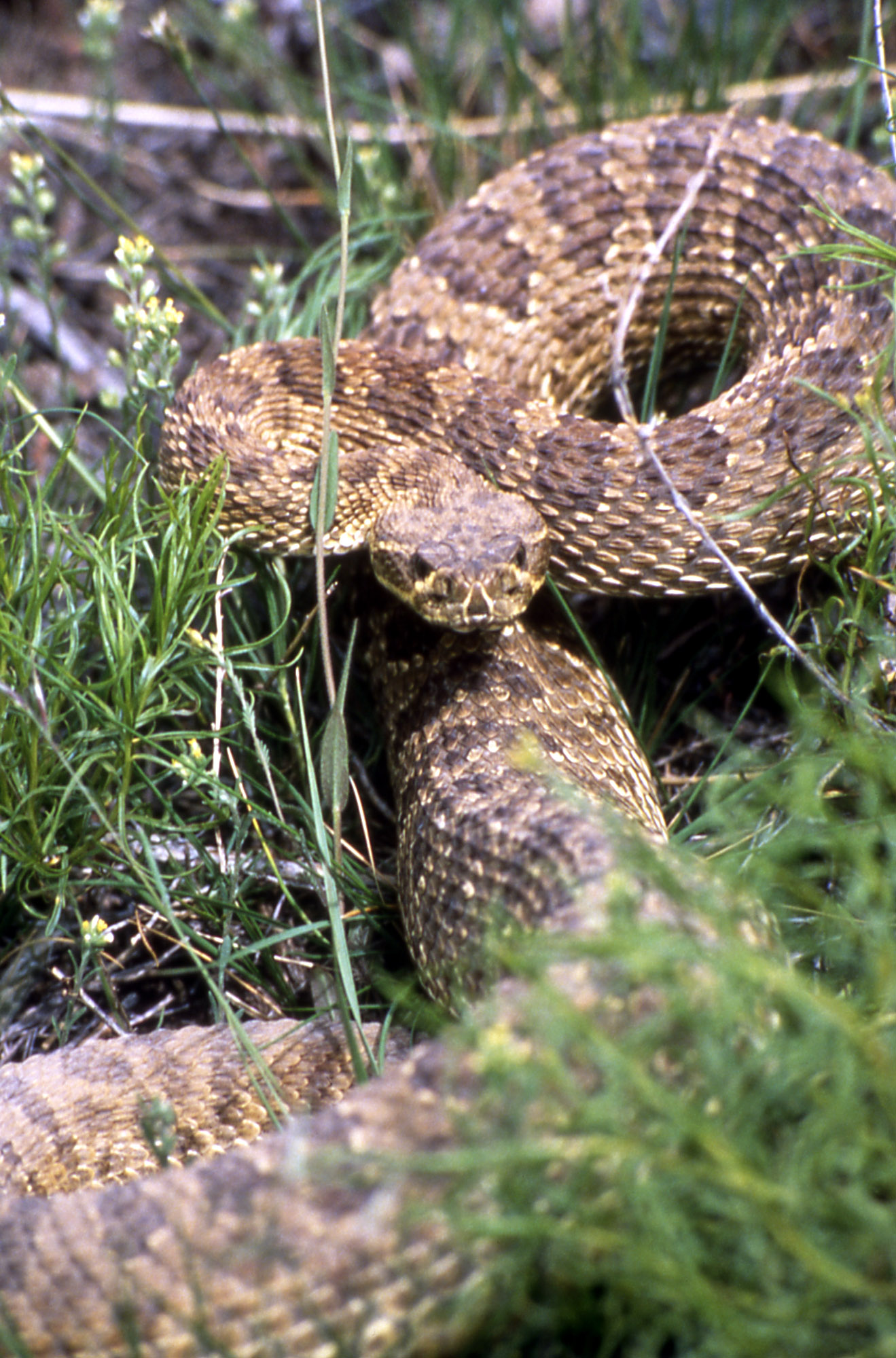 Prairie Rattlesnake, Crotalus viridis virdis, Yellowstone National Park, 1990